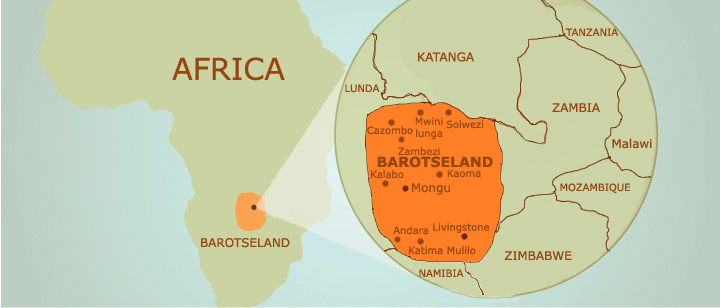 Location Map of Barotseland